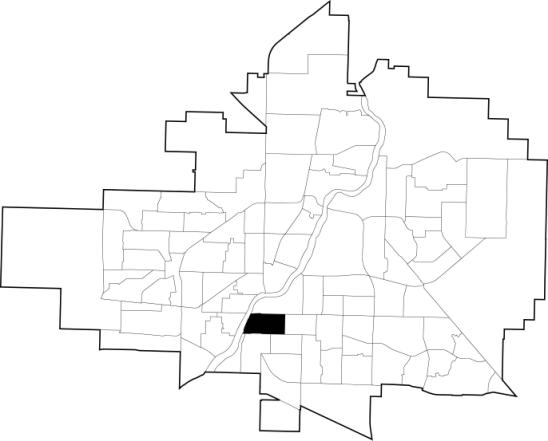 A map showing the location of the Buena Vista neighbourhood in relation to the other neighbourhoods in Saskatoon.